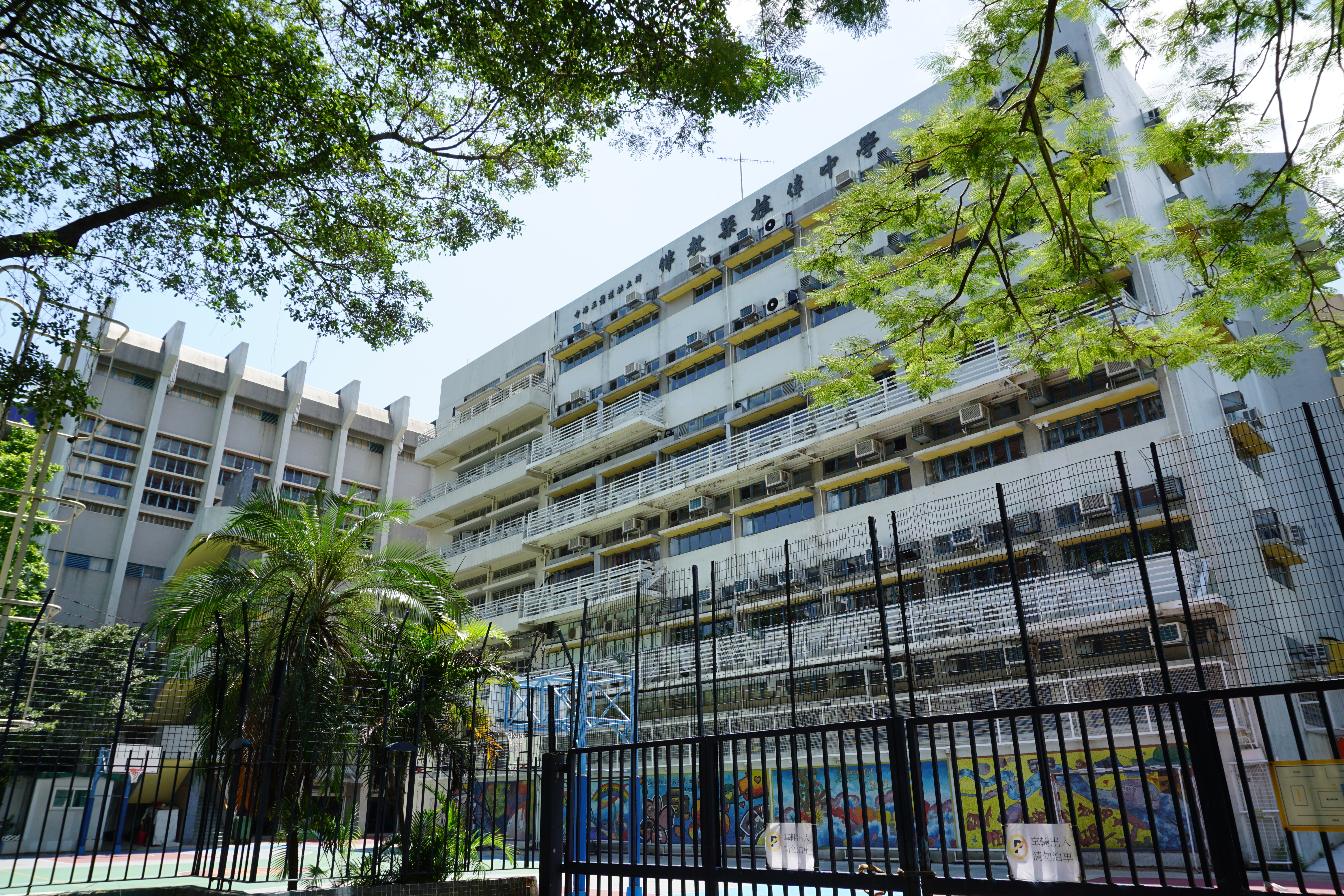 HHCKLA Buddhist Leung Chik Wai College in Tuen Mun, Hong Kong.